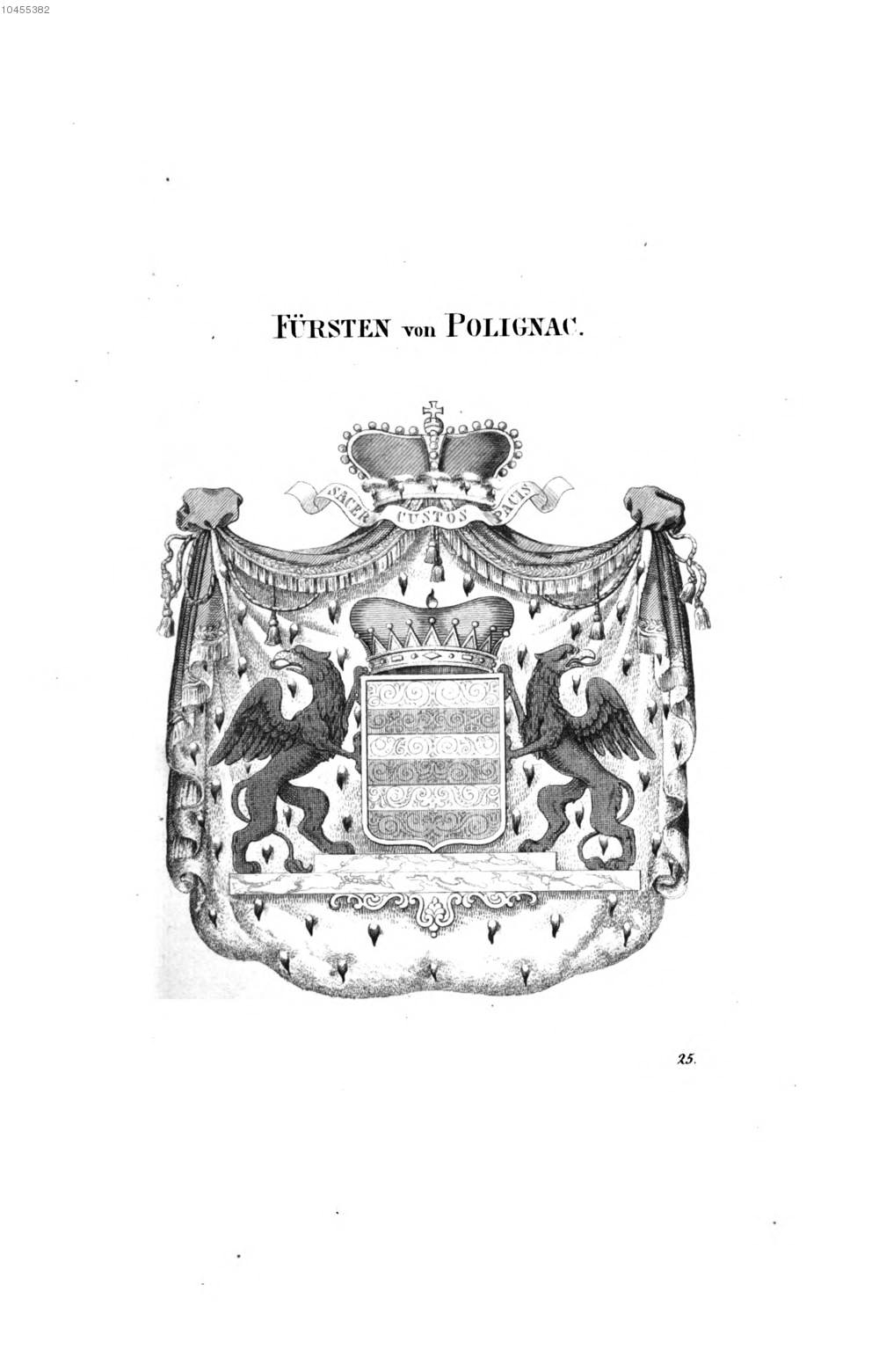 Wappen Polignac - Tyroff HA.jpg